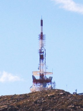 Aerial mast at the top of Patscherkofel (Austria)